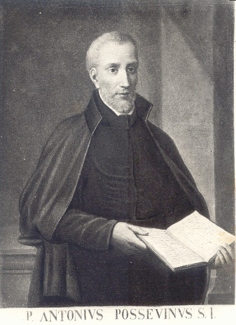 Antonio Possevino, (1533-1611), Italian Jesuit, writer and diplomat